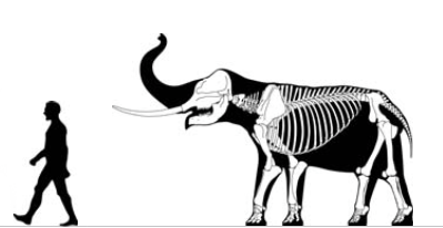 S. hanjiangensis SBV 8006 sex ? humerus 680 age 30 size group – femur 790 pelvis 980 207 cm • 2.1 t All the skeletal restorations are presented on the same scale (1/100). The human figure is 180 cm tall. Mass estimates are in kilograms for small proboscideans and in tonnes for the larger forms. Shoulder heights are in cm. The age (years), sex, size group, femur and humerus greatest length (mm) (in the case of * it refers to the humerus articular length in mm) and pelvis breadth (mm) are included.